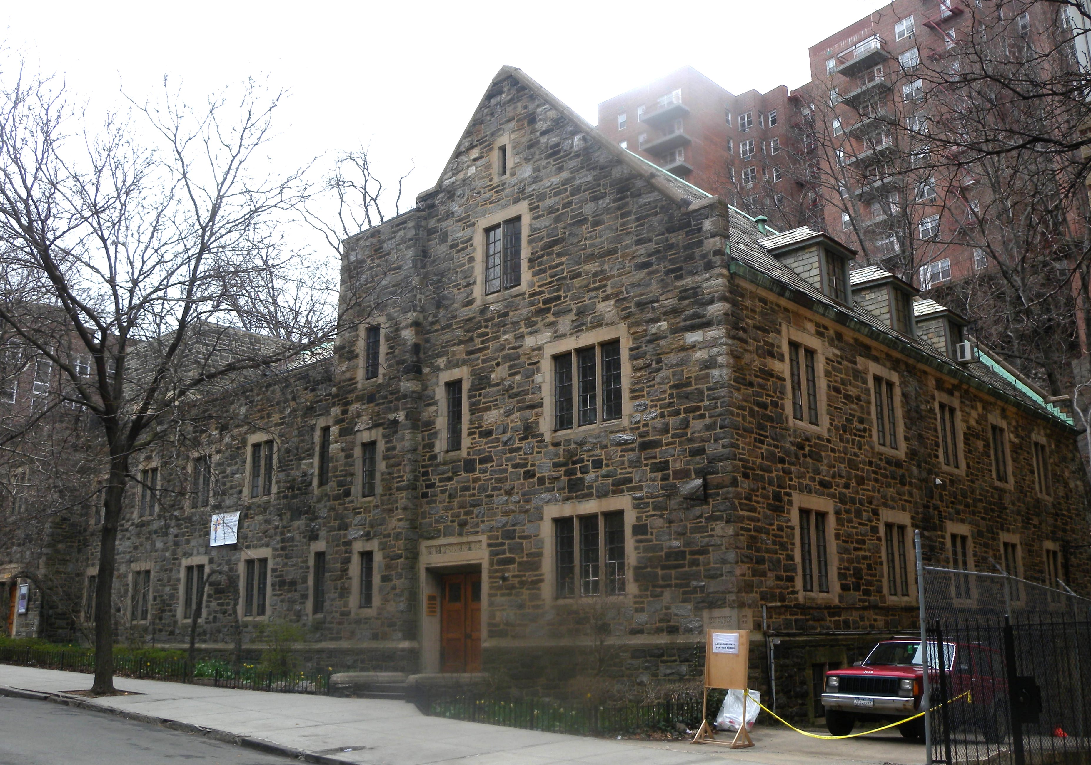 Looking west across Bennet Avenue and up the hill at Church of Our Savior's Atonement on a cloudy midday.